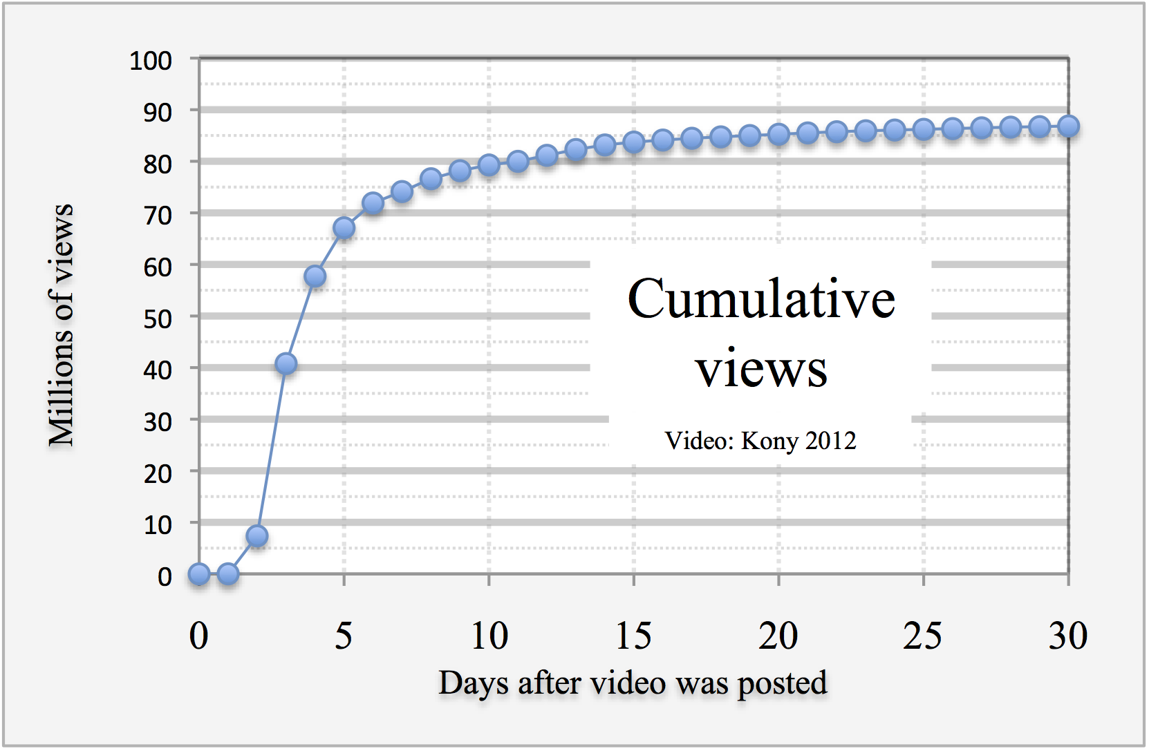 Graph of cumulative views of Kony 2012 video. Video name: KONY 2012 Video view data taken from video's Wayback Machine archives Archives chosen were the latest archives of the day, for thirty days. Suggested footnote: Raw data accessed September 30, 2018 from Wayback Machine archives of [ YouTube video page] stored on (click on year 2012). [1] Raw data: Date Day Cumulative views Daily views Day Daily/million Day Cumul/million 5-Mar-12 0 0 0 0 0.000 0 0.000 6-Mar-12 1 21,690 21,690 1 0.022 1 0.022 7-Mar-12 2 7,377,102 7,355,412 2 7.355 2 7.377 8-Mar-12 3 40,781,302 33,404,200 3 33.404 3 40.781 9-Mar-12 4 57,733,541 16,952,239 4 16.952 4 57.734 10-Mar-12 5 67,106,844 9,373,303 5 9.373 5 67.107 11-Mar-12 6 71,914,203 4,807,359 6 4.807 6 71.914 12-Mar-12 7 74,134,117 2,219,914 7 2.220 7 74.134 13-Mar-12 8 76,614,482 2,480,365 8 2.480 8 76.614 14-Mar-12 9 78,167,891 1,553,409 9 1.553 9 78.168 15-Mar-12 10 79,277,982 1,110,091 10 1.110 10 79.278 16-Mar-12 11 79,987,245 709,263 11 0.709 11 79.987 17-Mar-12 12 81,151,593 1,164,348 12 1.164 12 81.152 18-Mar-12 13 82,282,426 1,130,833 13 1.131 13 82.282 19-Mar-12 14 83,167,878 885,452 14 0.885 14 83.168 20-Mar-12 15 83,720,754 552,876 15 0.553 15 83.721 21-Mar-12 16 84,115,938 395,184 16 0.395 16 84.116 22-Mar-12 17 84,461,758 345,820 17 0.346 17 84.462 23-Mar-12 18 84,734,648 272,890 18 0.273 18 84.735 24-Mar-12 19 84,988,062 253,414 19 0.253 19 84.988 25-Mar-12 20 85,243,122 255,060 20 0.255 20 85.243 26-Mar-12 21 85,498,432 255,310 21 0.255 21 85.498 27-Mar-12 22 85,727,614 229,182 22 0.229 22 85.728 28-Mar-12 23 85,911,202 183,588 23 0.184 23 85.911 29-Mar-12 24 86,054,951 143,749 24 0.144 24 86.055 30-Mar-12 25 86,195,839 140,888 25 0.141 25 86.196 31-Mar-12 26 86,340,781 144,942 26 0.145 26 86.341 1-Apr-12 27 86,484,828 144,047 27 0.144 27 86.485 2-Apr-12 28 86,617,926 133,098 28 0.133 28 86.618 3-Apr-12 29 86,711,969 94,043 29 0.094 29 86.712 4-Apr-12 30 86,844,060 132,091 30 0.132 30 86.844